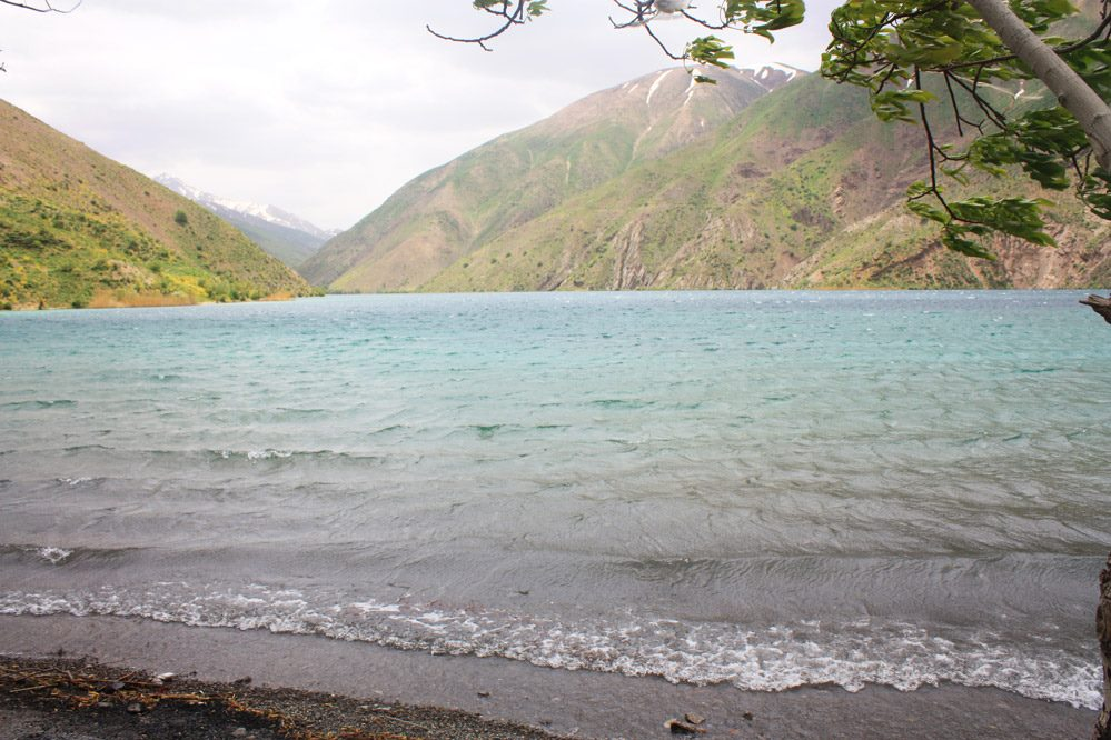 Gahar Lake 2014-may-19